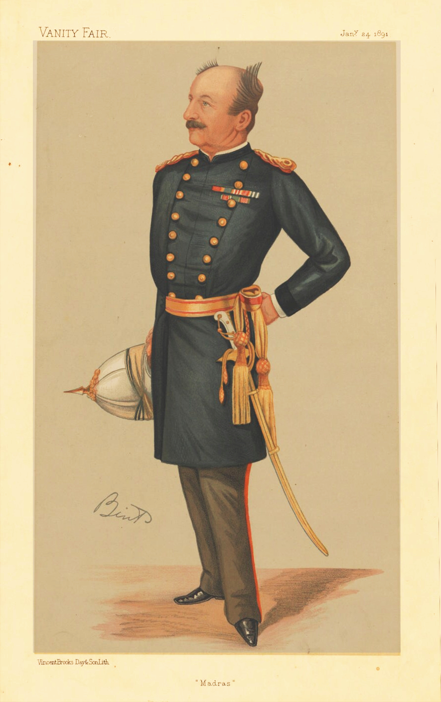 Men of the Day No.0496: Caricature of Gen Sir James Charlemagne Dormer KCB. Caption reads: "Madras"